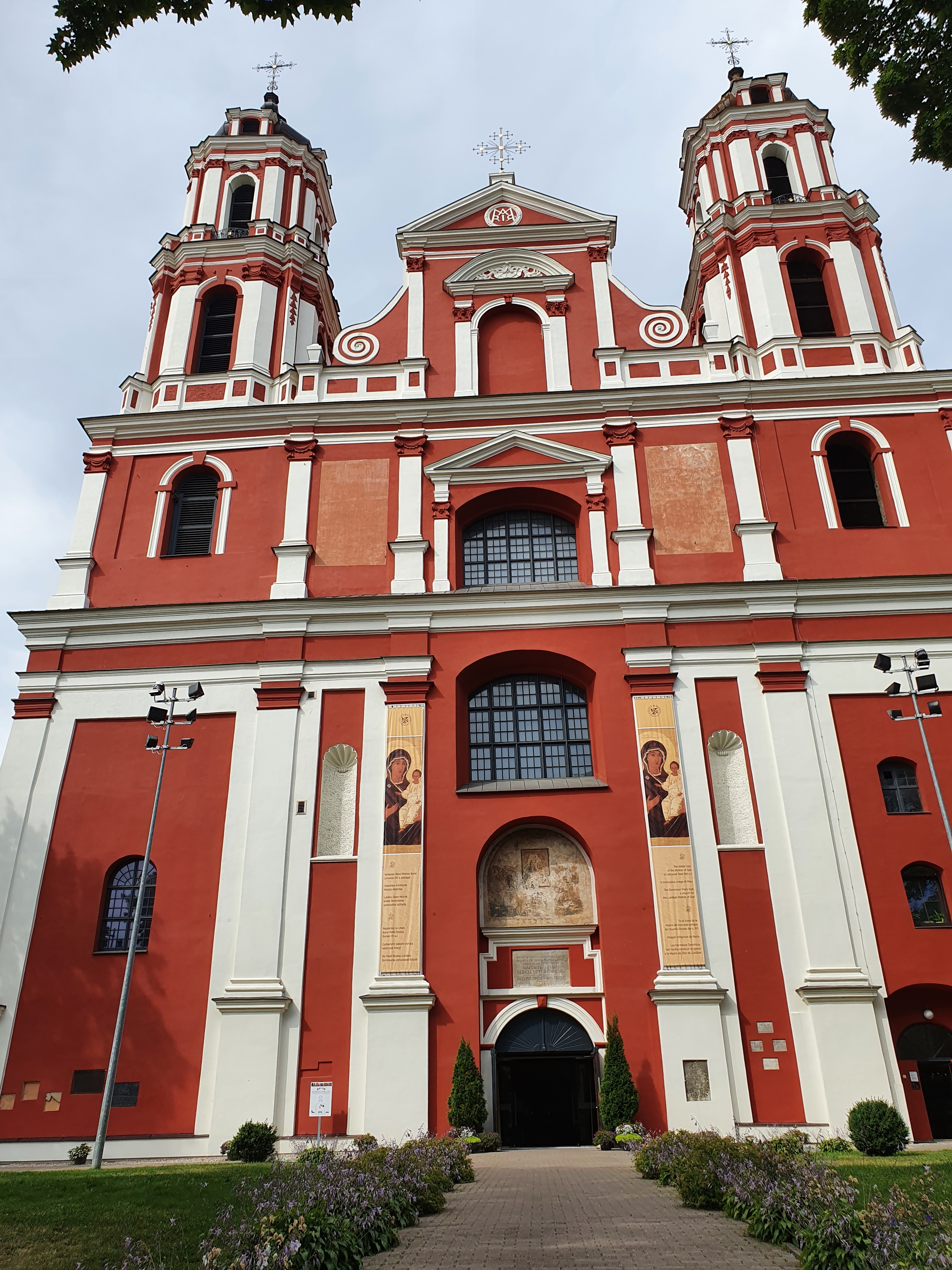 Church of St. Philip and St. Jacob in Vilnius main facade.